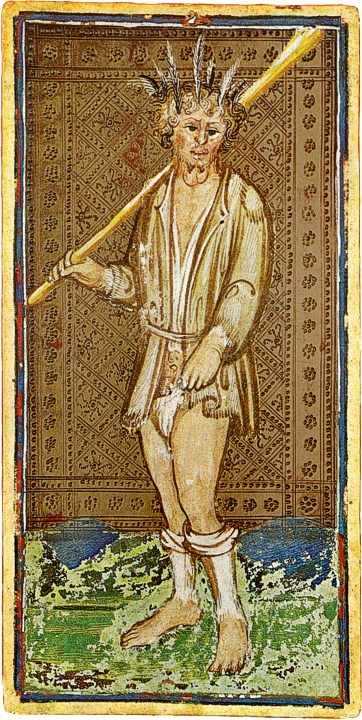 The Fool card from the Visconti-Sforza Tarot deck.